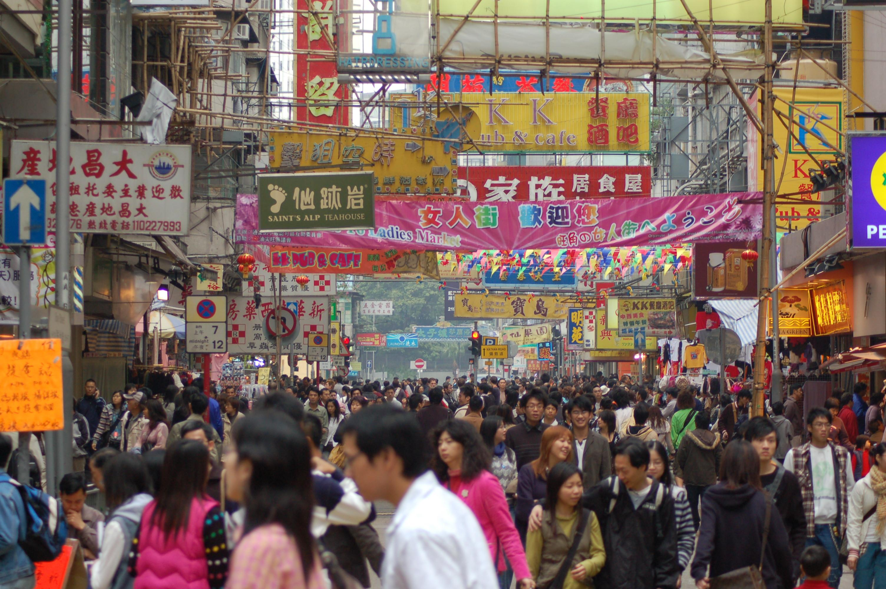 A crowd in Hong Kong street.